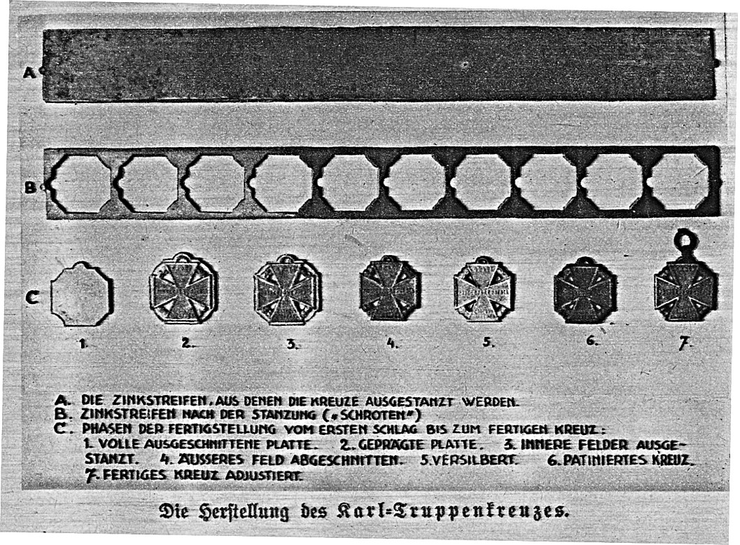 Production of the Karl-Cross